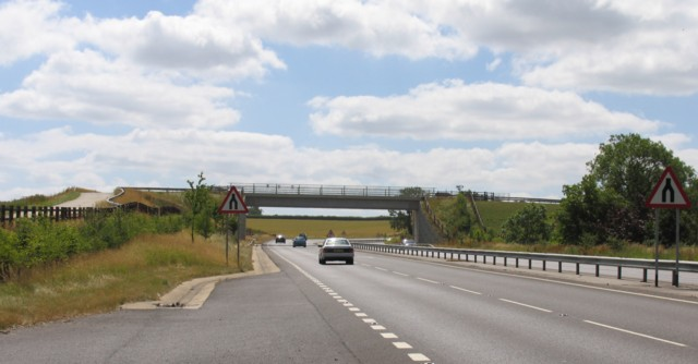 A6 towards Market Harborough. The southern end of the Great Glen bypass. The bridge was built to allow access to The Paddocks Farm.